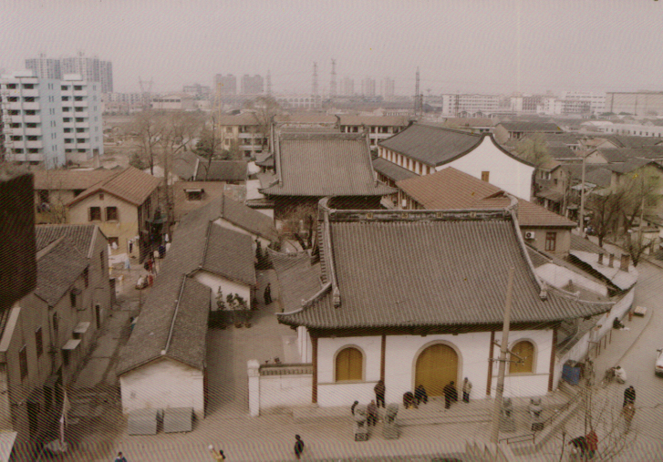 更多haier7917的中国古建照片/ more photos of ancient chinese architecture by haier7917：